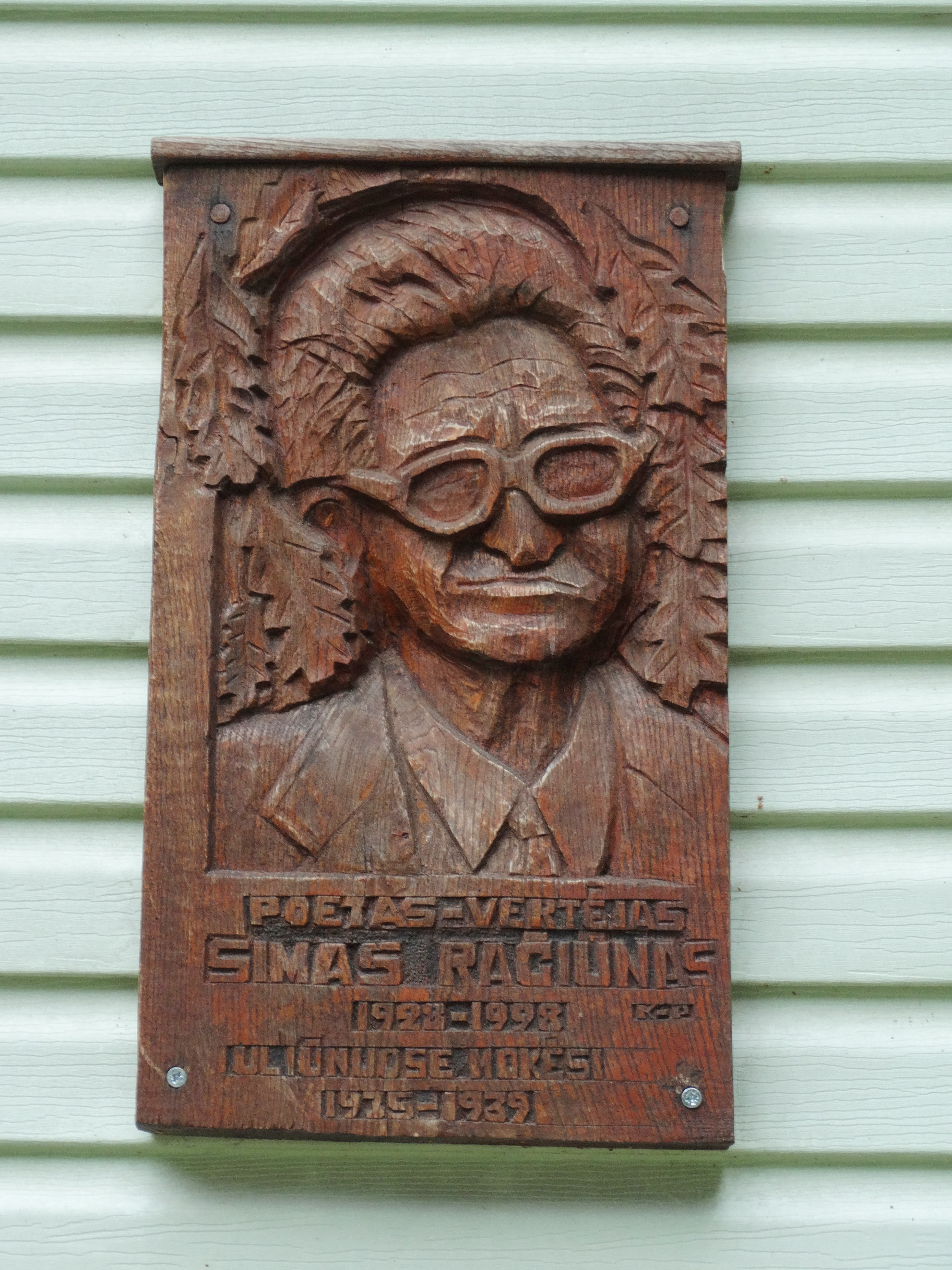 Memorial board, Uliūnai, Panevėžys district, Lithuania